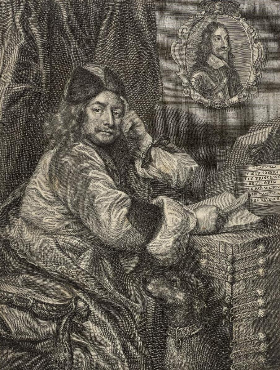 A portrait from the Welsh Portrait Collection at the National Library of Wales. Depicted person: Thomas Killigrew – English dramatist and theatre manager